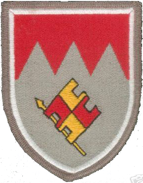 coat of arms of the Bundeswehr (Armed Forces of the Federal Republic of Germany). → Remarks on naming and categorization scheme